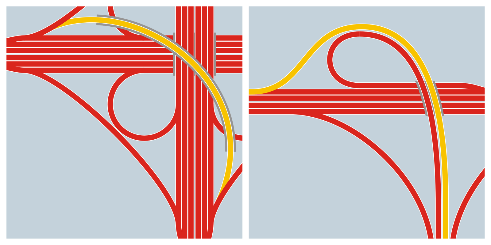 half direct ramp